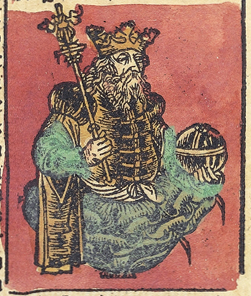 Illustration from the Nuremberg Chronicle (Latin copy in Sao Paulo)